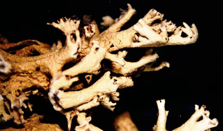 Cladonia leporina Fr., 1831 (photograph of a herbarium specimen taken through a dissecting microscope (x18) showing endings of podetia) Growing on soil in Mississippi, USA; collected and identified by Elmer G. Worthley (No. LH-211); specimen is now in the Lichen Herbarium of the New York Botanical Garden.